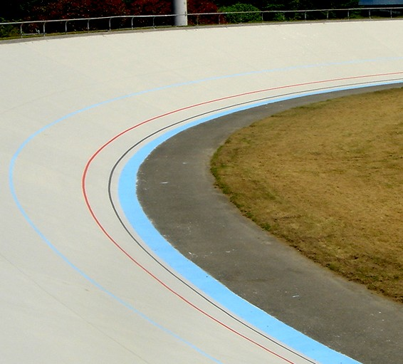 Track markings on a velodrome at Marymoor Park in Redmond, Washington. Photograph taken by Tradnor on May 25, 2005.